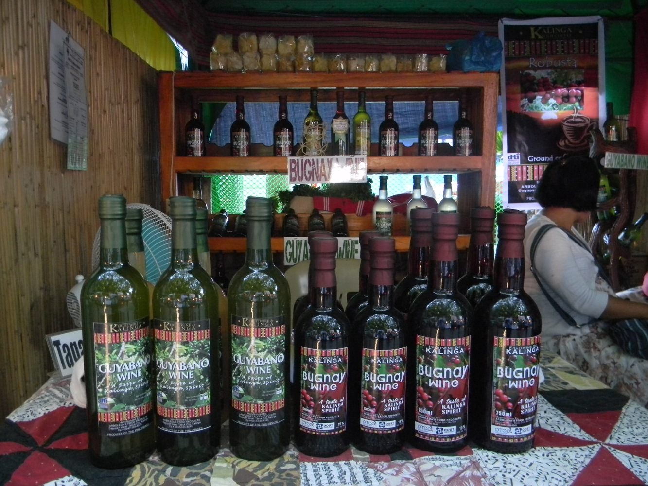 "HOMEMADE FRUITWINES: Organized Kalinga women that are assisted by the DTI are engaged in production of fruit wines like bugnay, guyabano, pineapple and guava, is becoming a gainful source of income for families. (LL-PIA Kalinga)